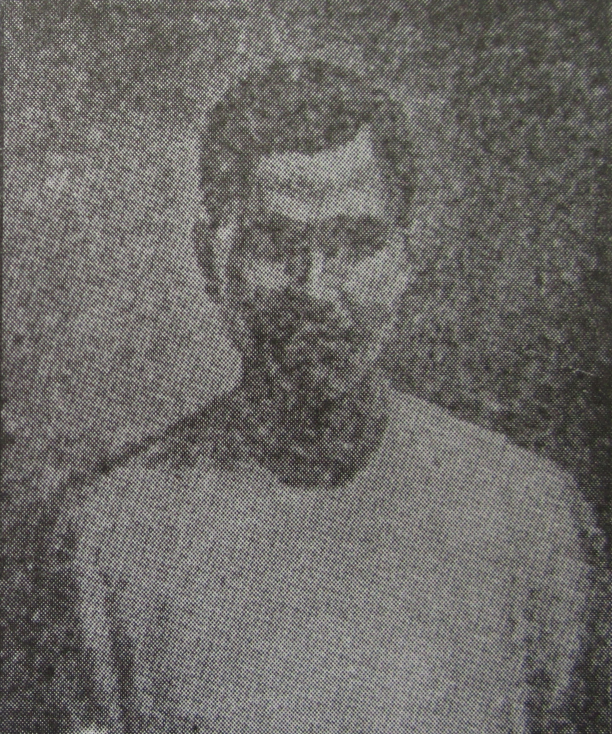 Brajokishore Chakrabarty